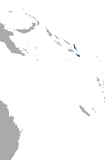 Malaita Tube-nosed Fruit Bat (Nyctimene malaitensis) range